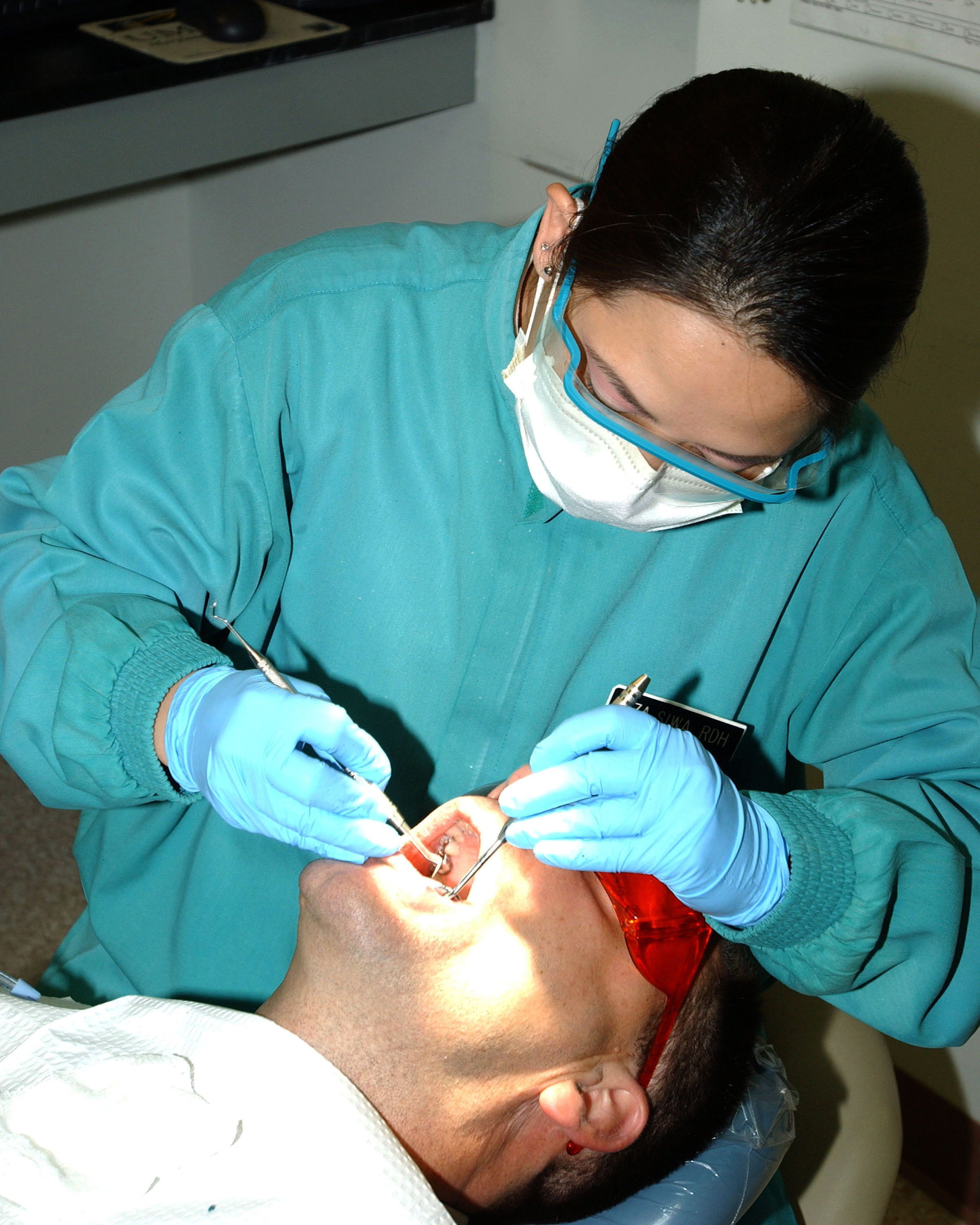 Manama, Bahrain (April 27, 2005) - Dental Hygienist Liza Siwa conducts a routine cleaning for Senior Chief Quarter Master Karl Darr in the Naval Branch Health Clinic at Naval Support Activity (NSA) Bahrain. The clinic, which provides dental treatment for Sailors stationed throughout the 5th Fleet Area of Responsibility, is scheduled to open an edition of seven new treatment rooms in September 2005. U.S. Navy photo (RELEASED)